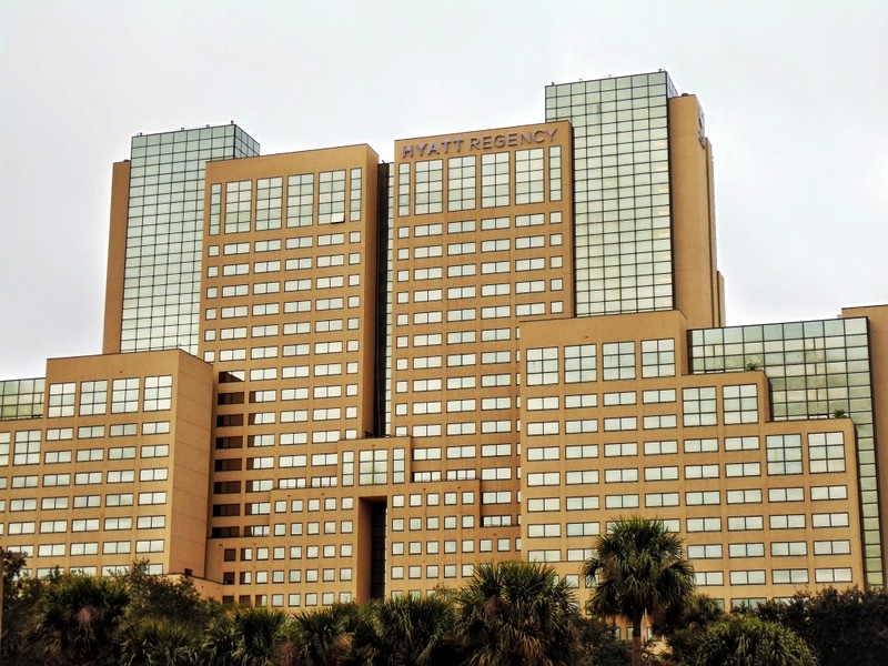 hotel at International drive in Orlando, Florida